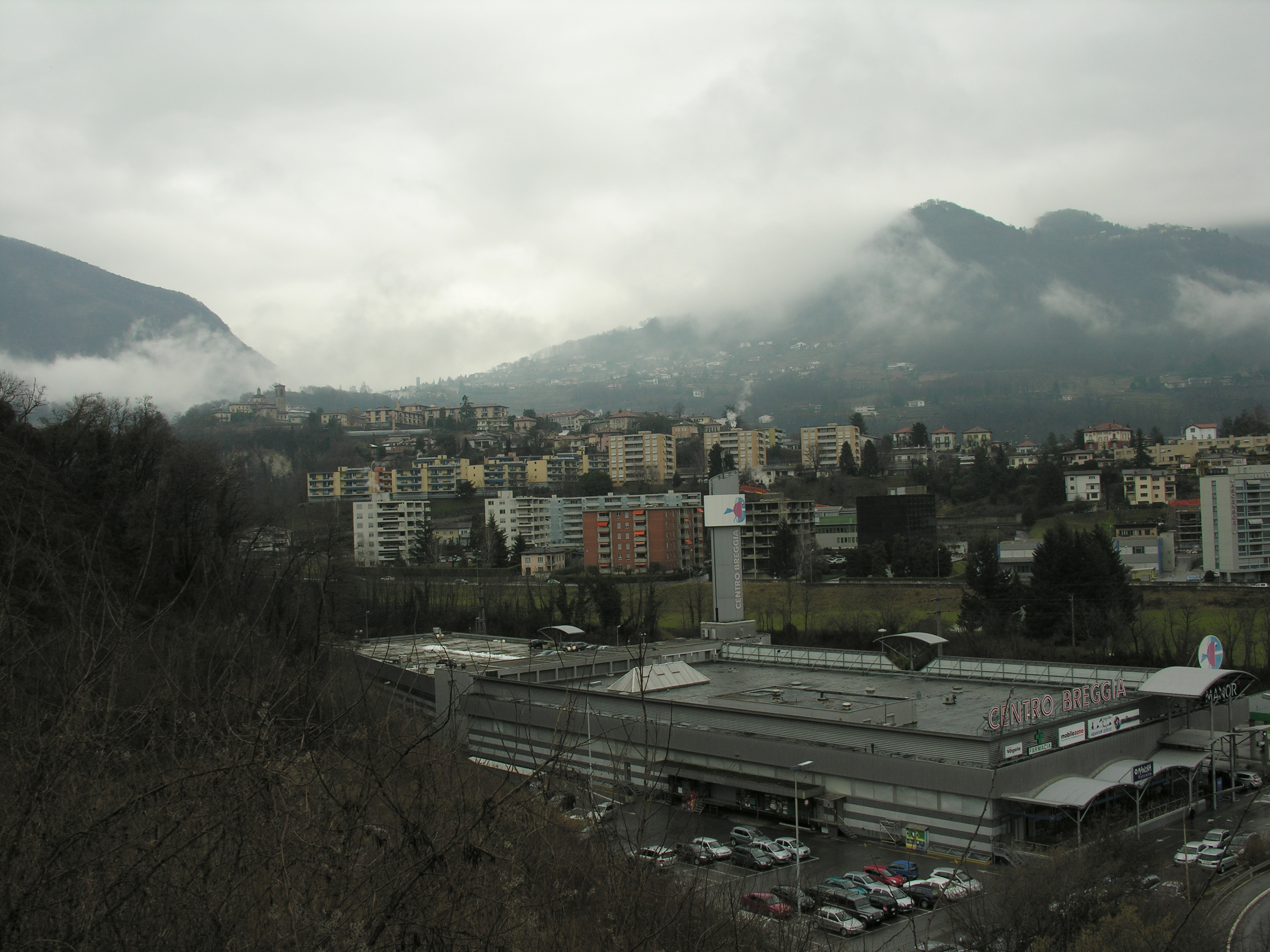 Panorama of Morbio Inferiore, Tessin, Switzerland in a rainy day